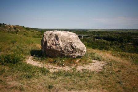 Glacial boulder. Nature Park Nizhnehopersk. Volgograd Region.